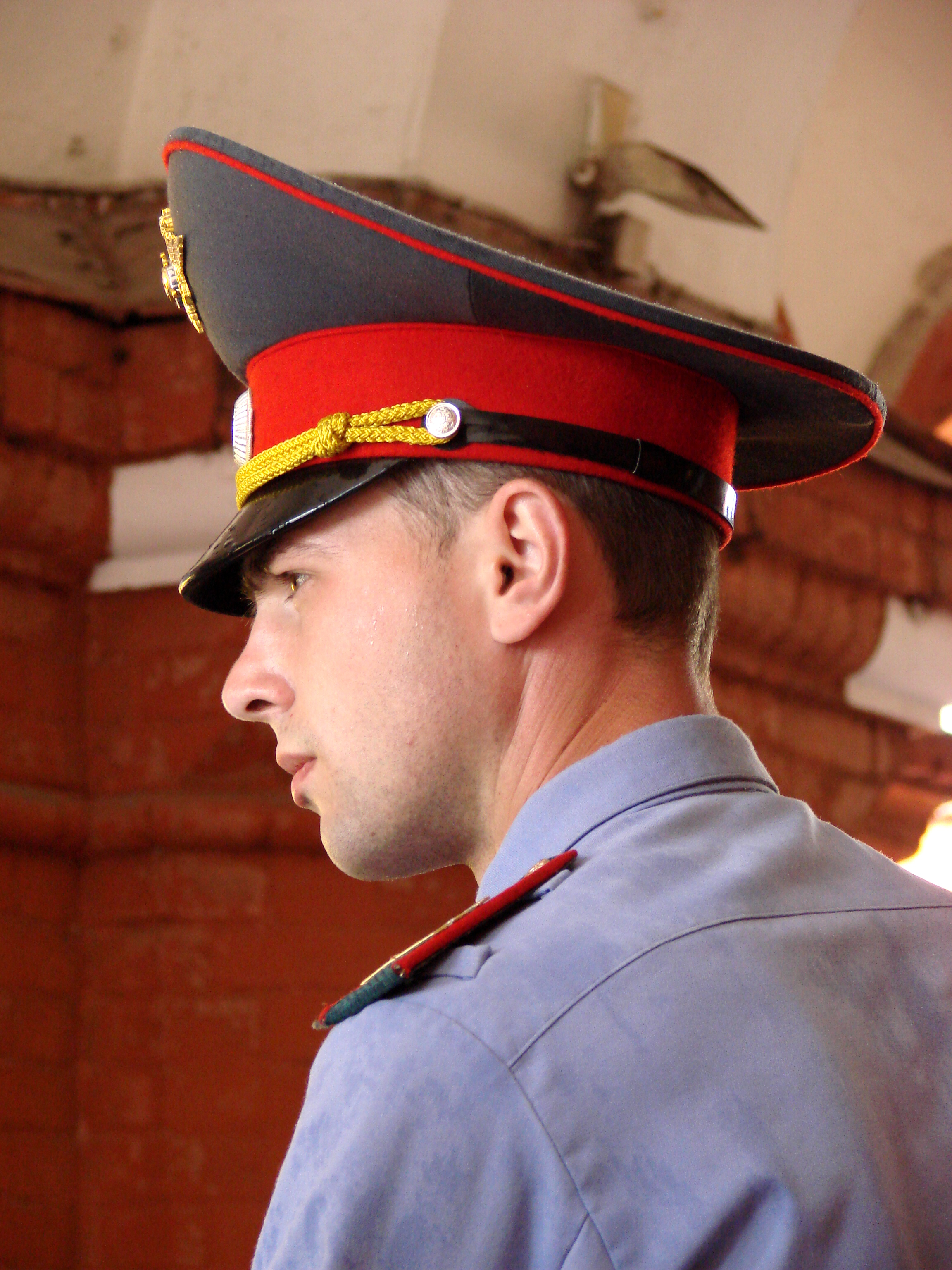 Mounted policeman, vicinity of Red Square, Moscow, Russia. June 2008.